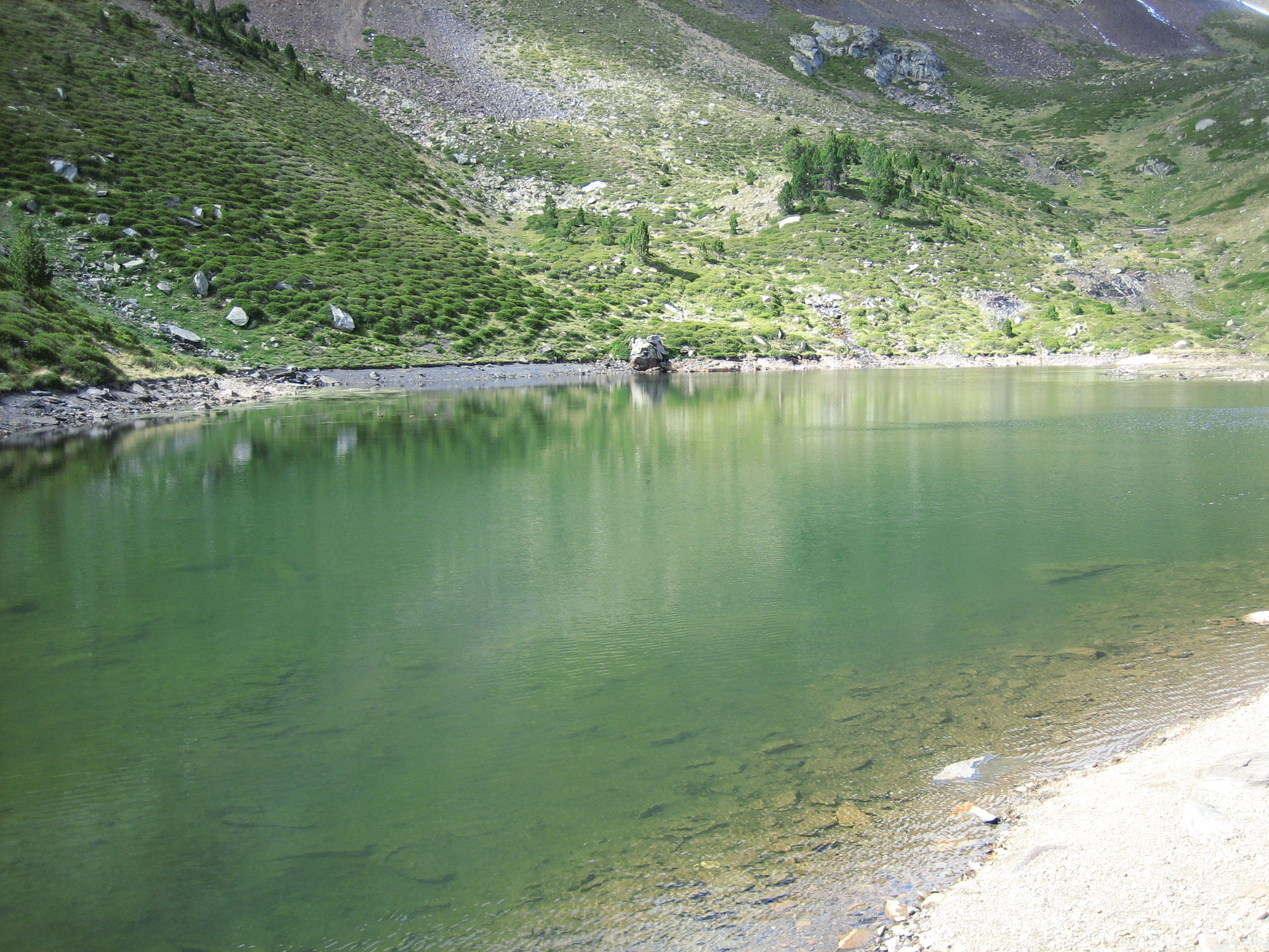 Estany de les Truites, Arinsal, La Massana, Andorra